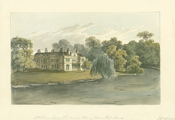 Landscape watercolour with Mitcham Grove, country house near Mitcham, Surrey, England.